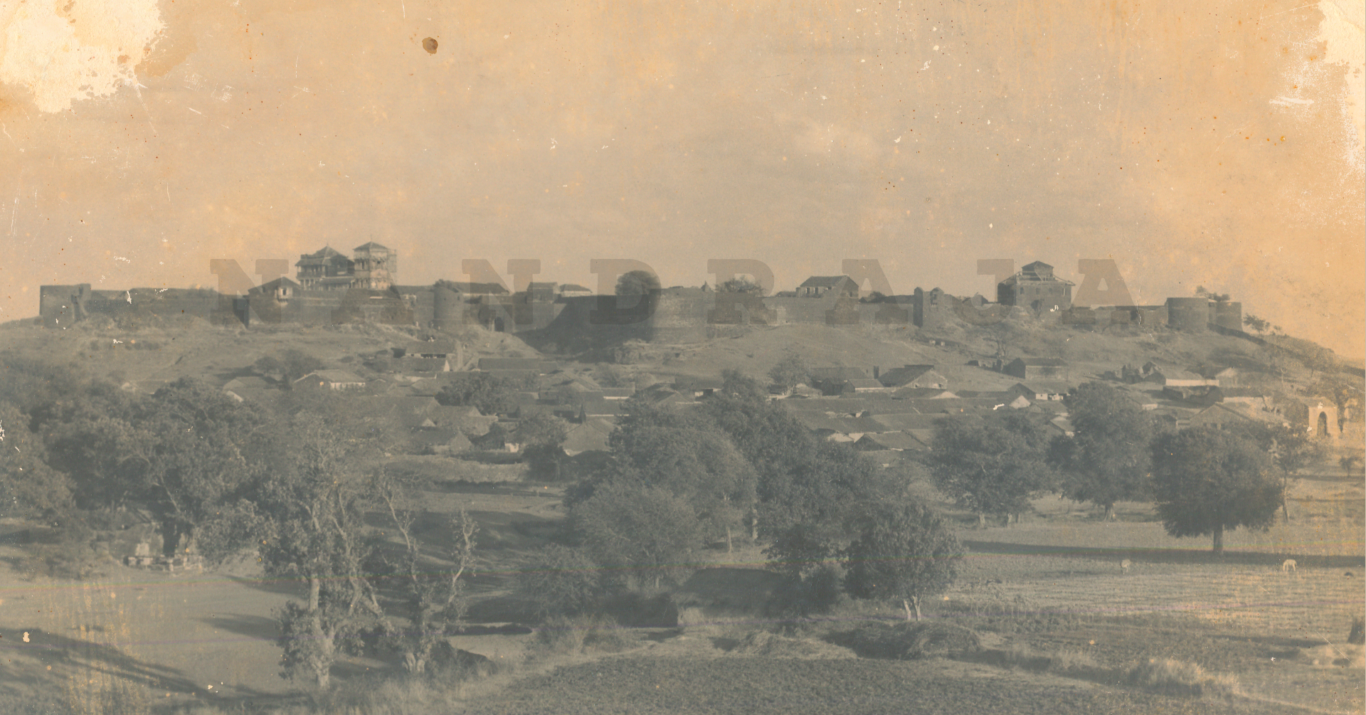 The fort of Rajpura, formally containing the erstwhile Administratives and the village itself